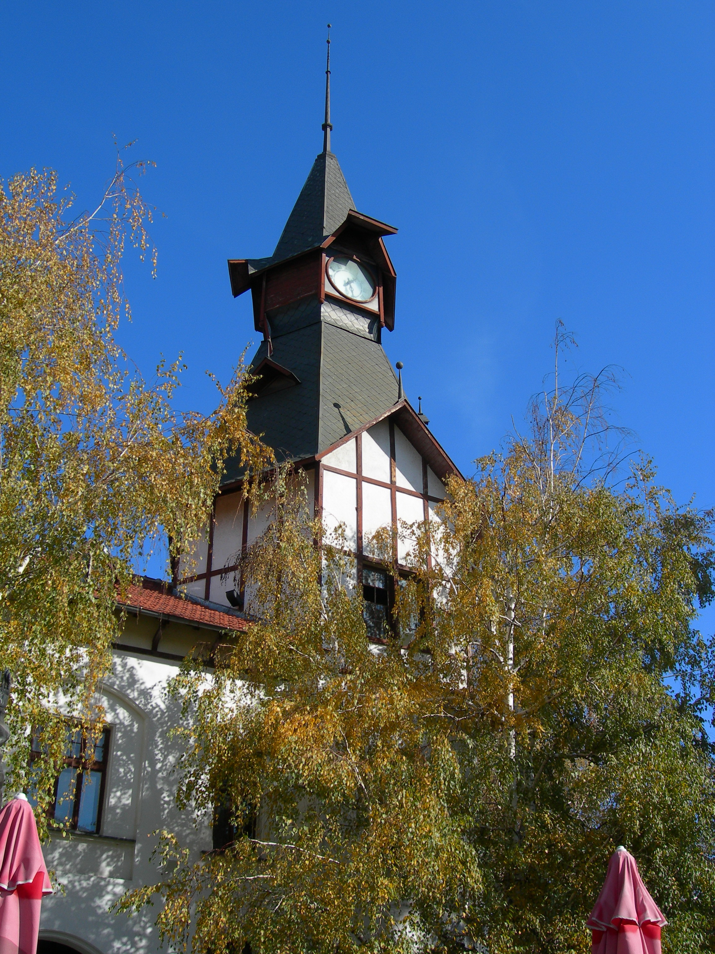 Clock Tower of the Old Post Office in Pazardzhik